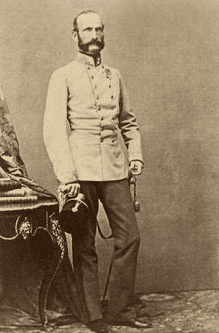 Prince Alexander of Hesse and by Rhine, son of Grand Duke Louis II of Hesse and Wilhelmine of Baden.